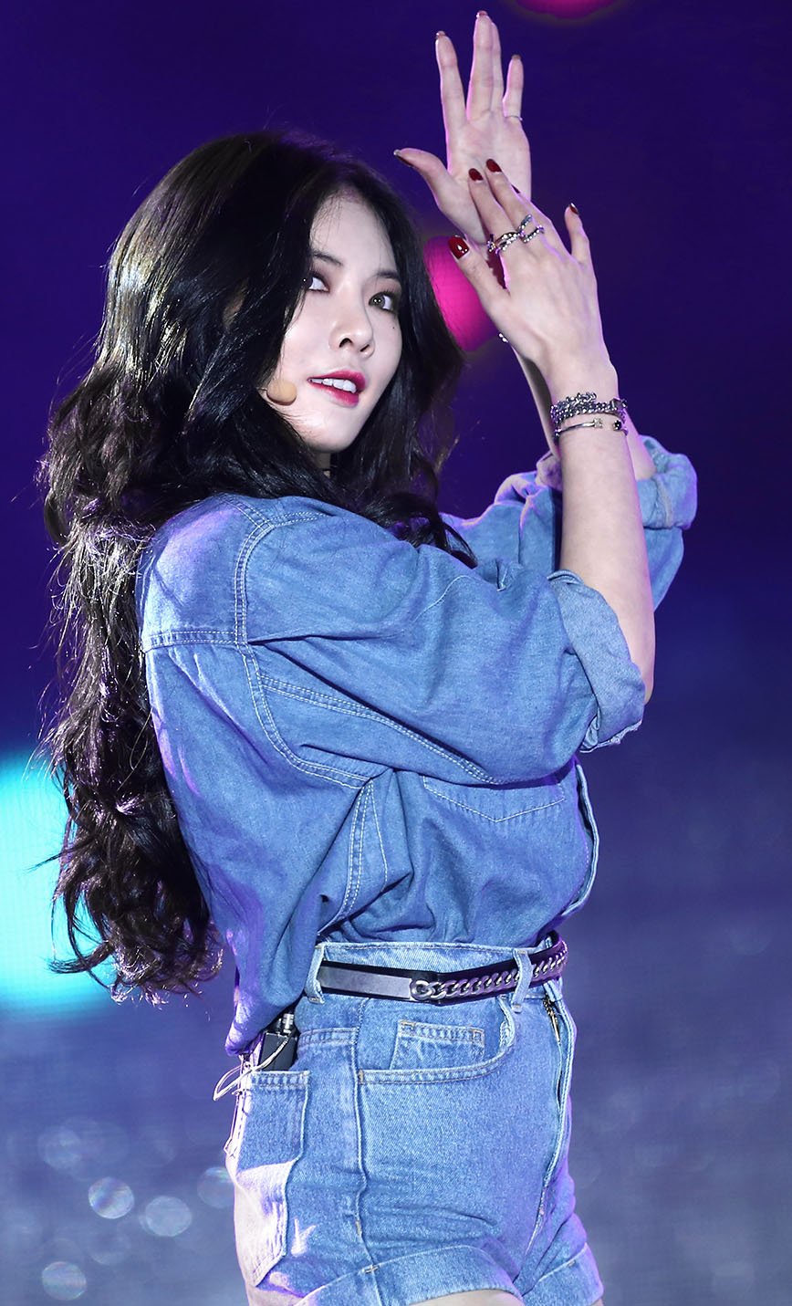 Hyuna performing at 2014 Hallyu Dream Concert. Photo cropped from original.